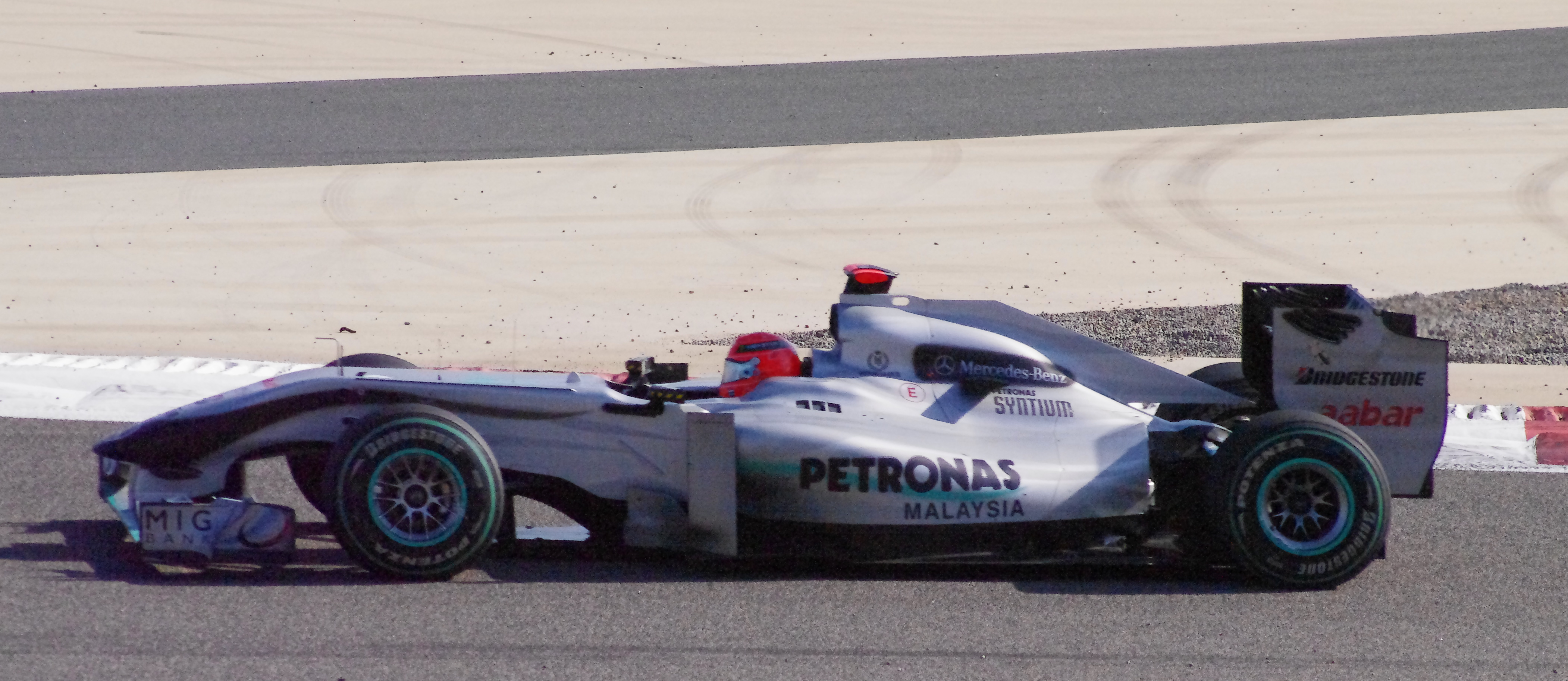 Michael Schumacher driving for Mercedes GP at the 2010 Bahrain Grand Prix.